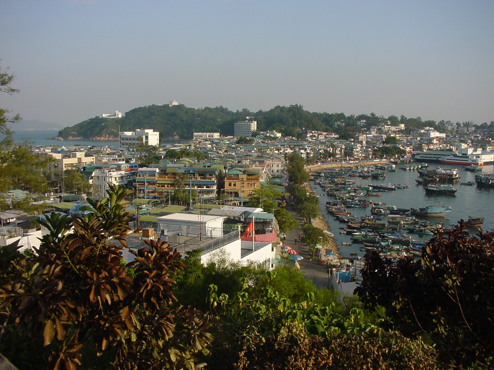 Sight of the western coast of Cheung Chau, Hong Kong